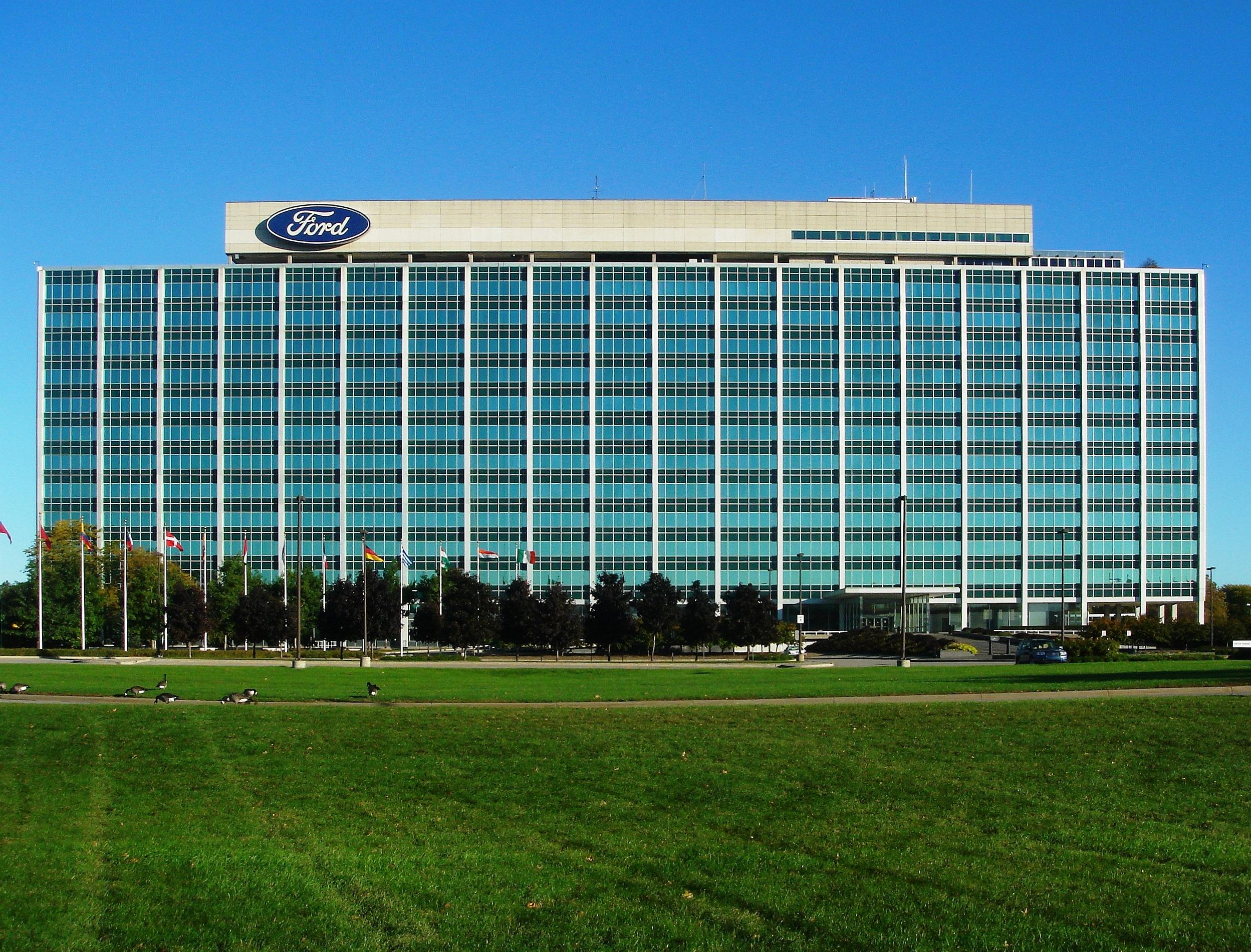 Ford Motor Company Headquarters, Dearborn, Mi. The Glasshouse; built in 1956, architect: Skidmore, Owings & Merrill LLP